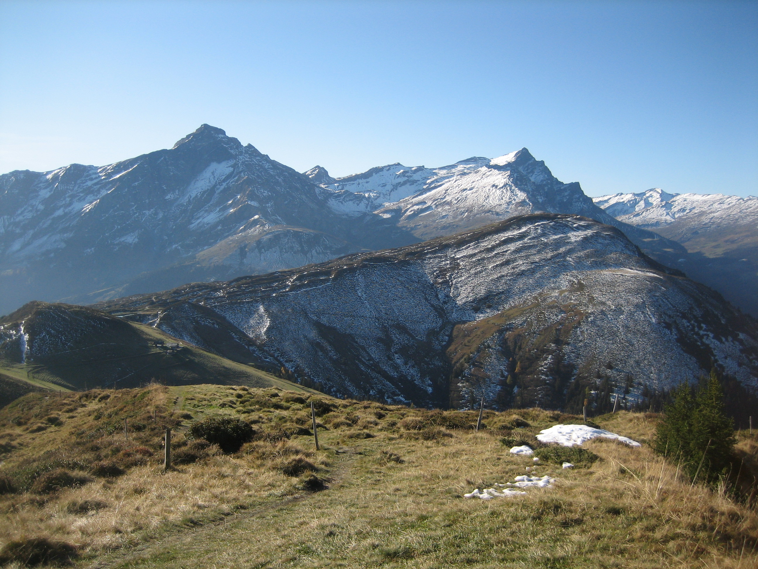 Lüschgrat, Piz Beverin and Bruschghorn from Tguma, Safien, Cazis, Tschappina, Grison, Switzerland Rumantsch: Lüschgrat, Piz Beverin e Bruschghorn piglia se digl Tguma, Stussavgia, Cazas, Grischun, Svizra